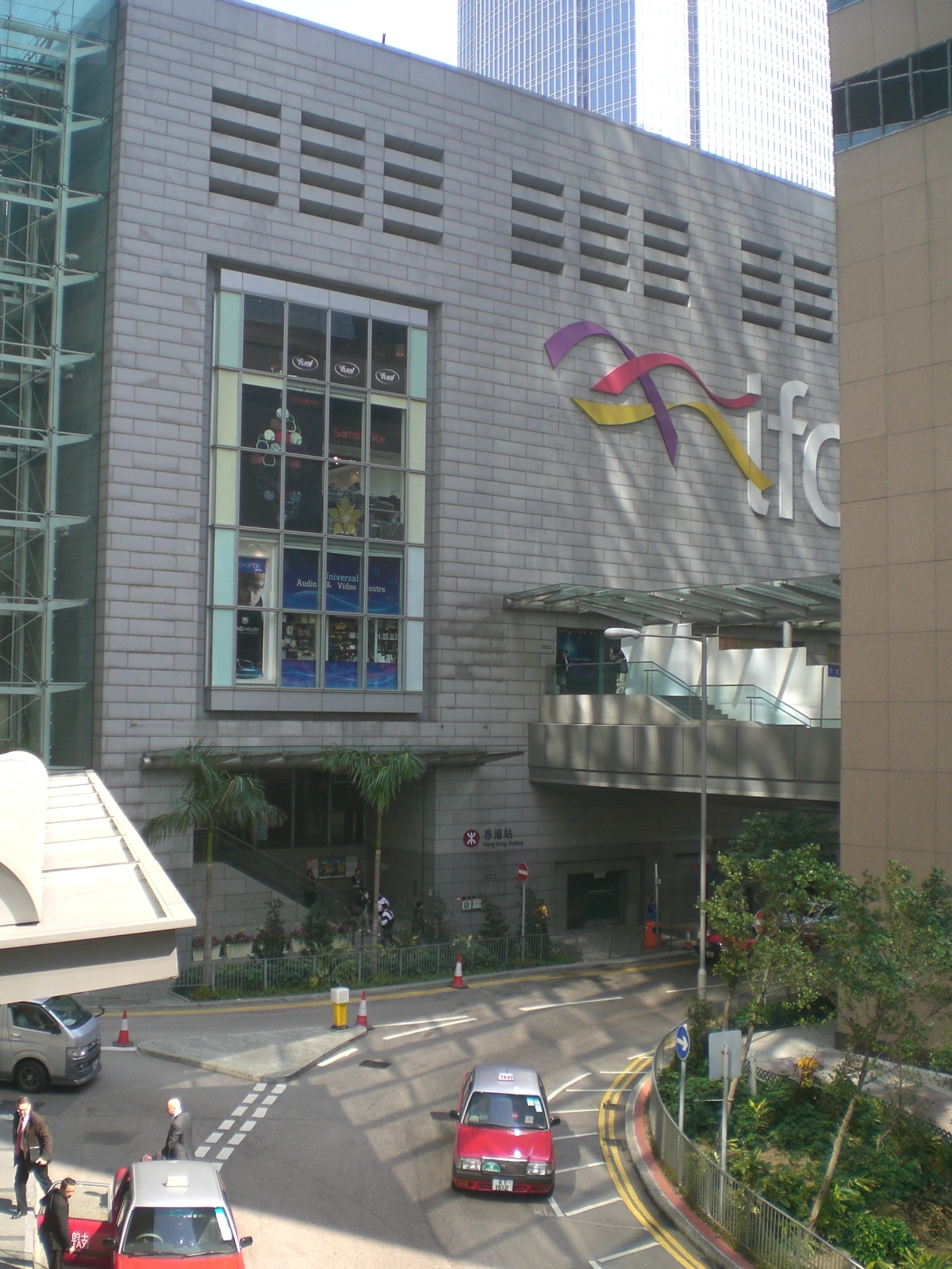 Description as per this file name.